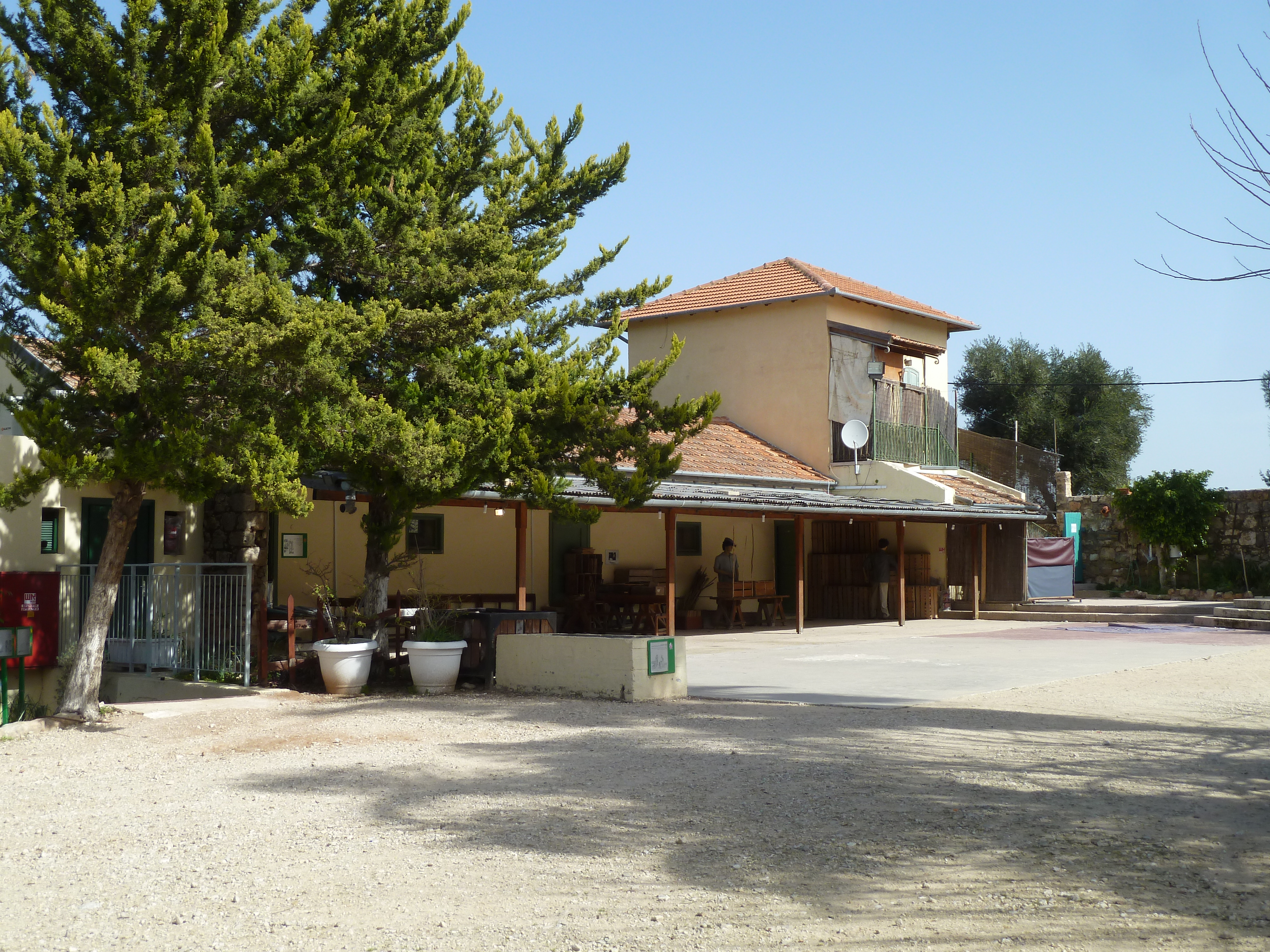 Pardes Minkov, The Museum for the History of Orange Growing in Israel, Rehovot, Israel This image was taken as part of the Elef Millim project trip to Pardes Minkov near Rehovot in the Centre of Israel, which was held on Friday, 8th February 2013. To view all images uploaded as part of the Elef Millim Project